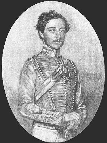 A young Charles John Stanley Gough in the uniform of the 8th Bengal Light Cavalry.. He was later awarded the Victoria Cross and became a General.